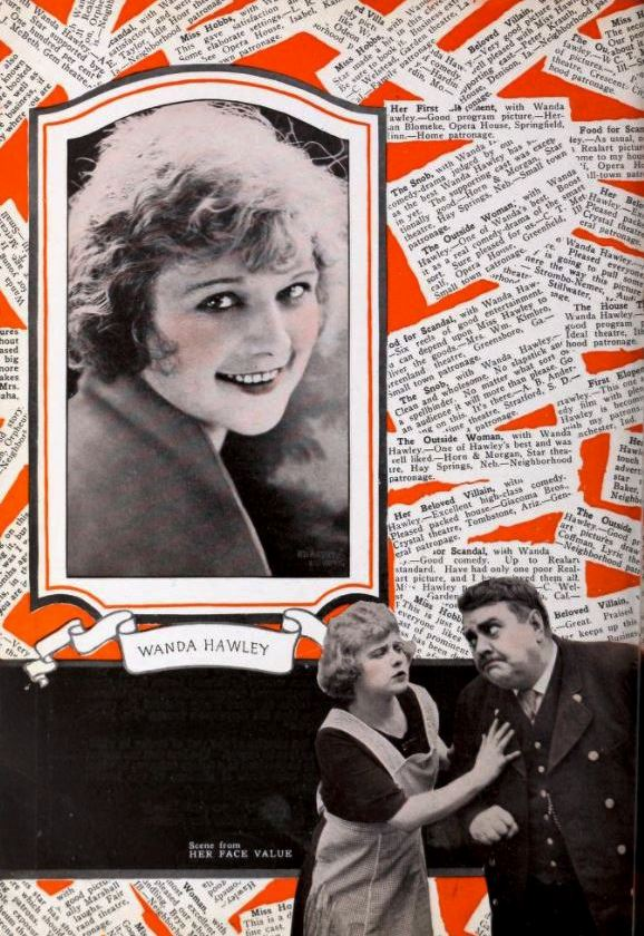 Advertisement for the American drama film Her Face Value (1921) with Wanda Hawley and Lincoln Plumer, from the insert after page 18 of the August 27, 1921 Exhibitors Herald.